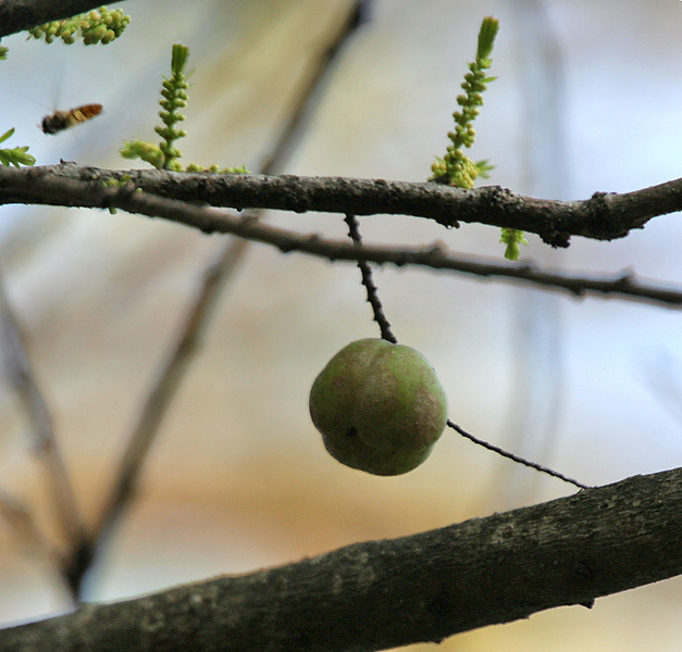 Indian gooseberry or Amla Phyllanthus emblica at Jayanti in Buxa Tiger Reserve in Jalpaiguri district of West Bengal, India.